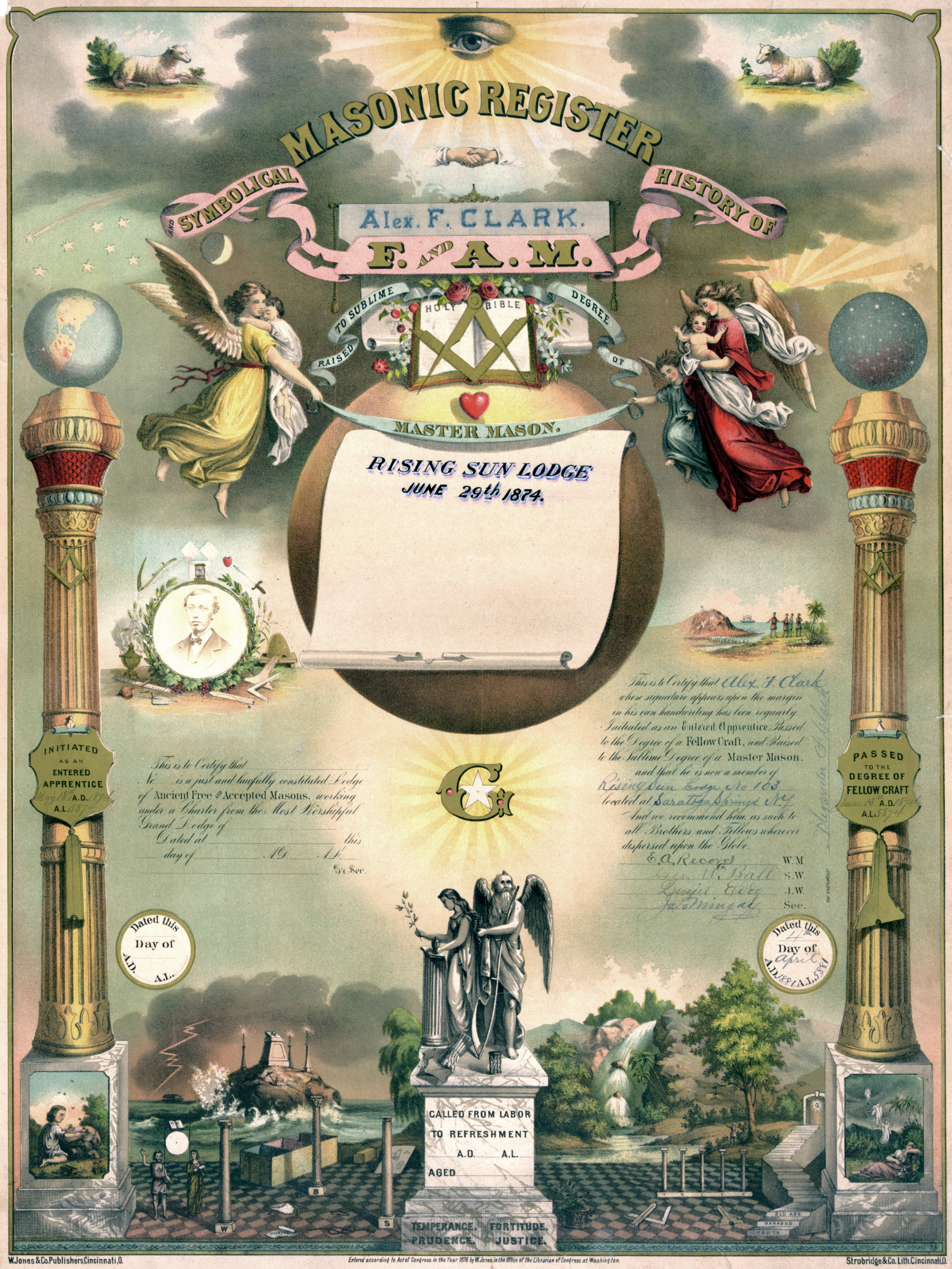 Masonic Register. Symbolic History of F. and A.M. Lucas S. Rawls,Sr. Raised to Sublime Degree of Master Mason. Garden City Lodge. JUNE 11th, 1990. Inititated as an Entered Apprentice April 13th A.D. 1990, A.L. 5990. Passed to the Degree of Fellow Craft May 10th A.D. 1990, A.L. 5990. This is to Certify that Garden Garden City Lodge__ No. _59_ is a just and lawfully constituted Lodge of Free and Accepted Masons, working under a Charter from the Most Worshipful Prince Hall Grand Lodge of Illinois__. Dated at __ this _28_ day of September__ A.D. 1990__ A.L. 5990__. Sr. Sec. This is to certify that Lucas S. Rawls, Sr. whose signature appears upon the margin in his own handwriting has been regularly Initiated as an Entered Apprentice, Passed to the Degree of a Fellow Craft, and Raised to the Sublime Degree of a Master Mason, and that he is now a member of Garden City Lodge No. 59 located at Chicago, IL And we recommend him as such to all Brothers and Fellows wherever dispersed upon the Globe. [Signed] E.A. Record W.M. / Kevin Sparks S.W. / George Reed J.W. / Roger Buckley Sec. Dated this 28th day September 1990. A.L. 5990. [Signed] Ne varietur. Lucas S. Rawls Sr. Called from Labor to Refreshment _1990_ A.D. 5990__ A.L. __ Aged 39_. Temperance. Fortitude. Prudence. Justice. Entered according to Act of Congress in the Year 1876 by W. Jones in the Office of the Librarian of Congress at Washington.